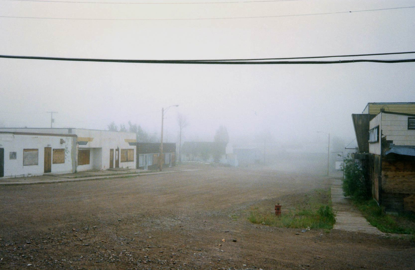 1997 or 2000. Main street Uranium City. Only the blue building at the very bottom was still open.